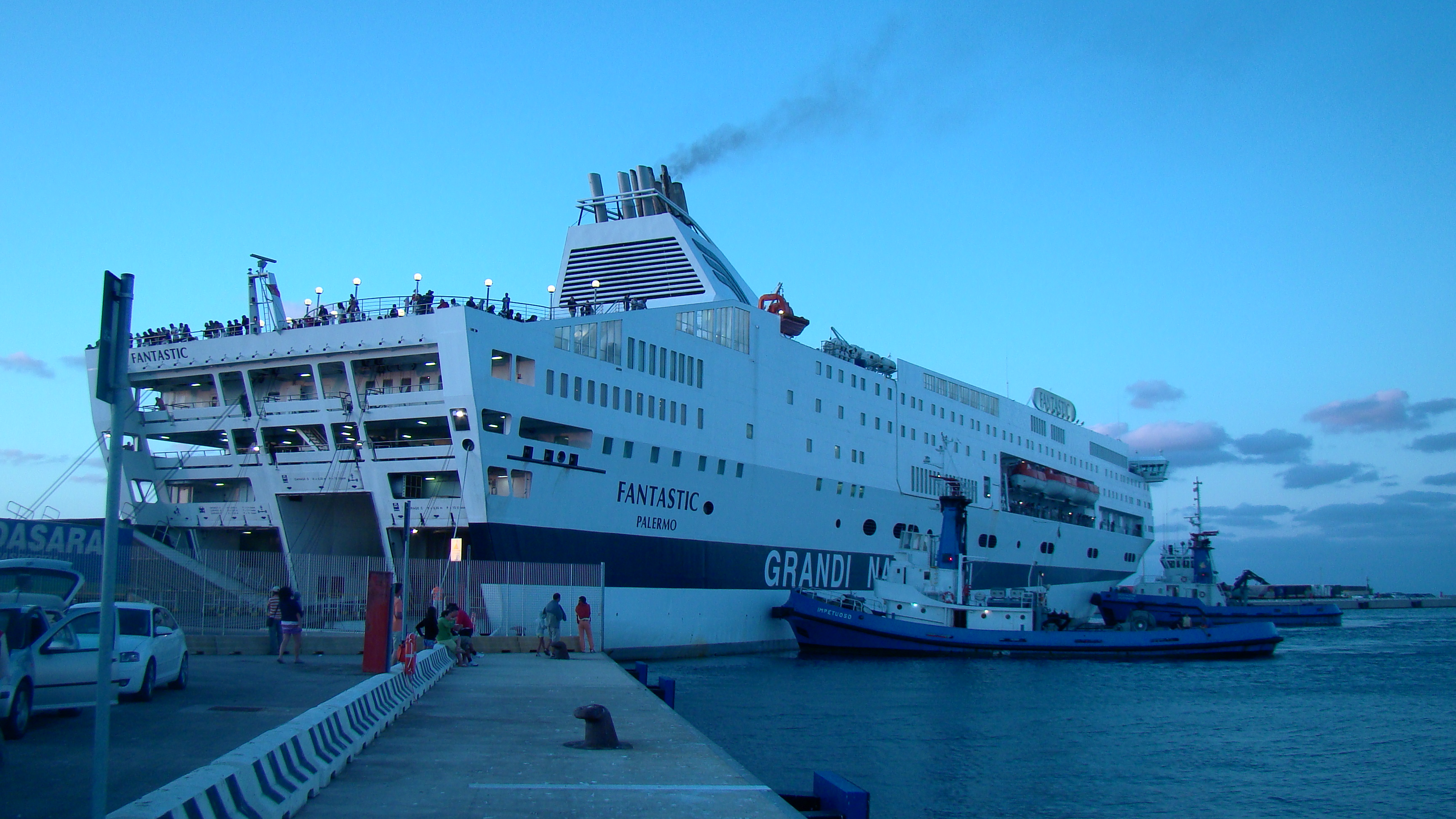 Cruise ferry GNV Fantastic at Porto Torres (Sardinia, Italy) kept in place by two tugs, because of the strong gusts of mistral wind.